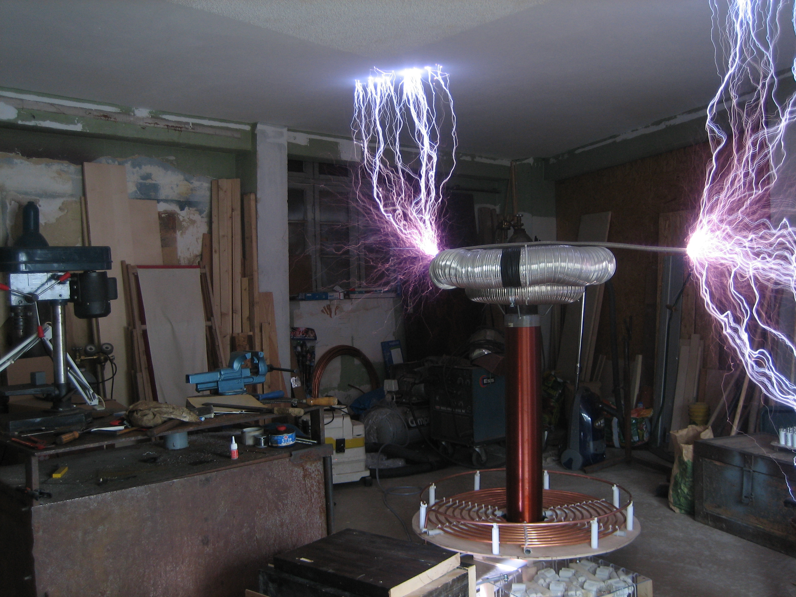 Tesla Coil Sparks 4KVA with Corona on Wire